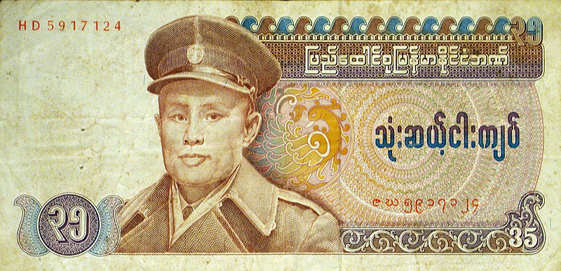 35 Kyats, issued by Union of Burma Bank.